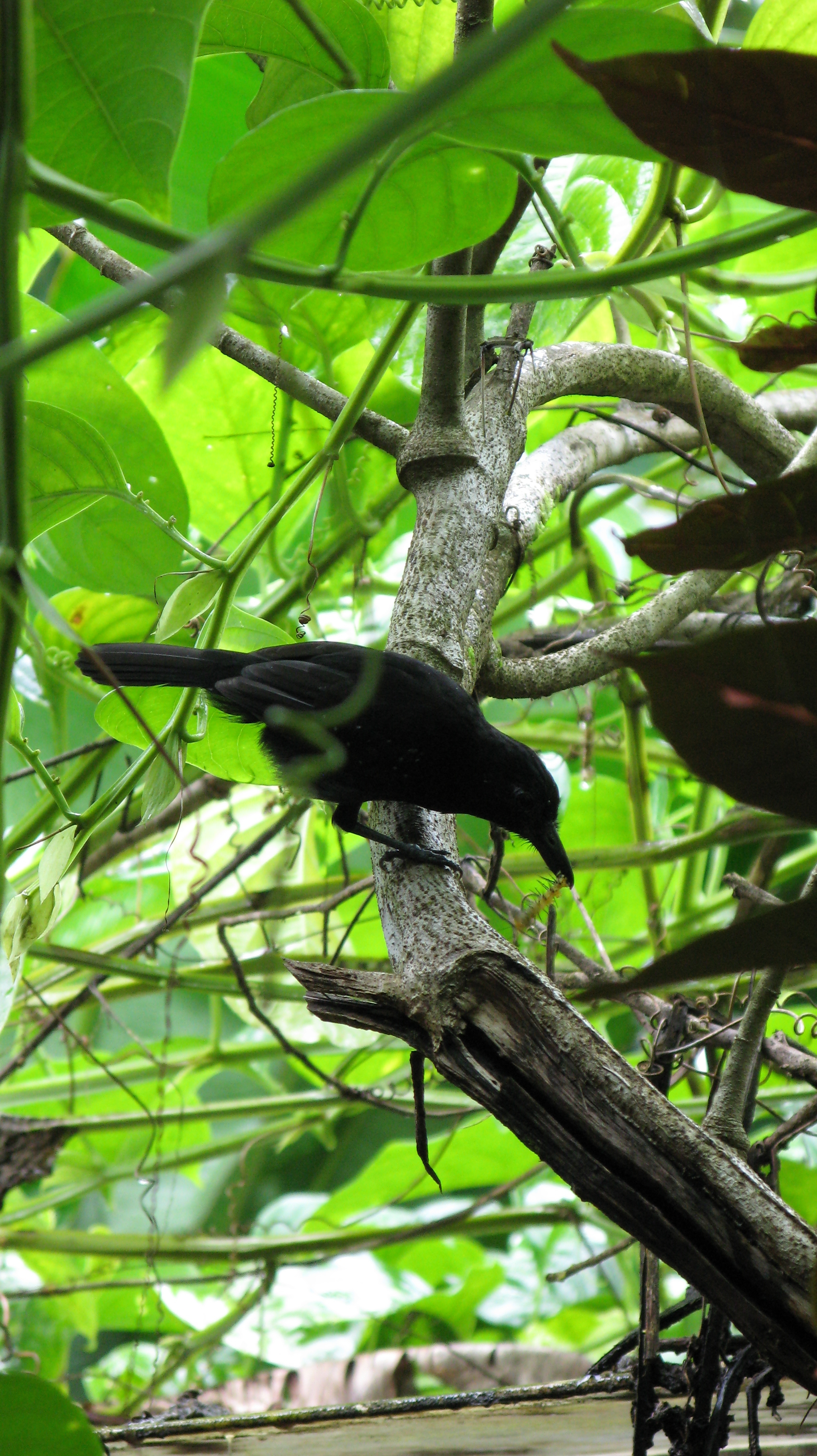 Black-hooded Antshrike, Thamnophilus bridgesi. Originally mistakenly identified as a Dot-winged Antwren, hence the misleading file-name.